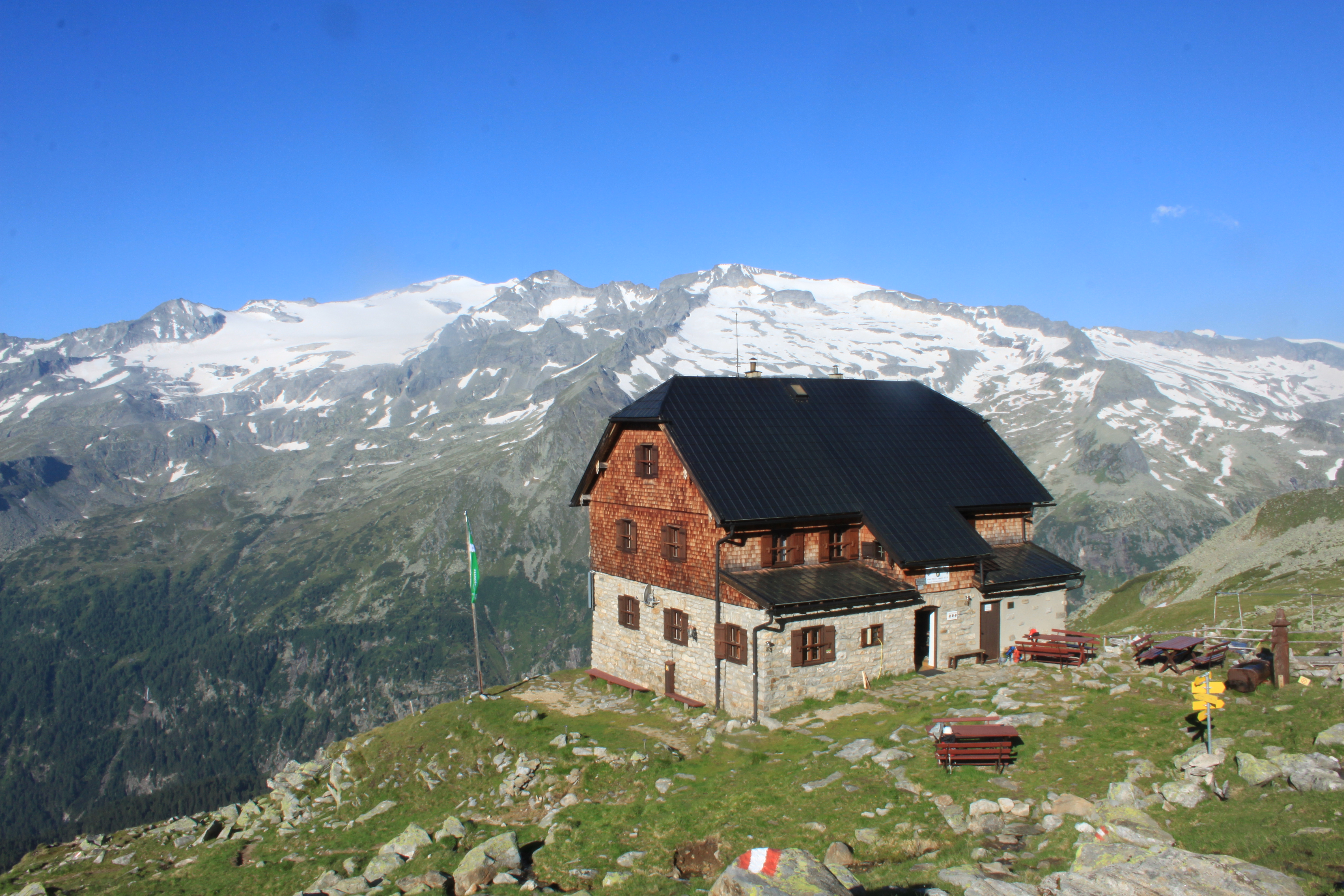 Kattowitzer Hütte with Hochalmspitze in the background, Austrian Kärnten.